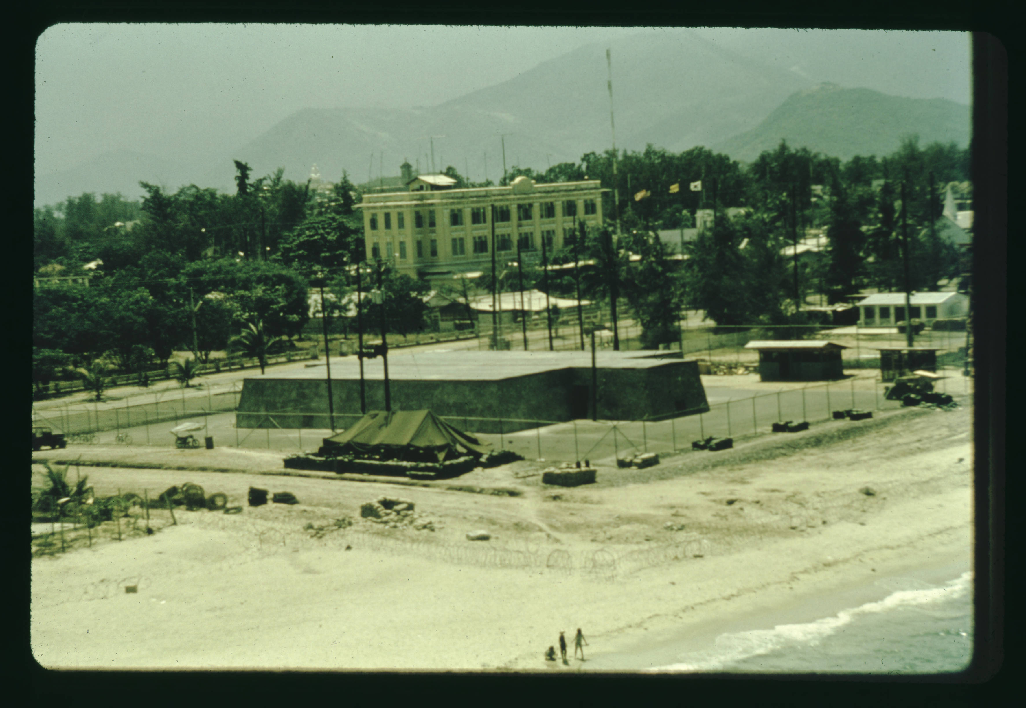 Tactical Operations Center of FFI constructed at Nha Trang by the 864th Engineer Battalion